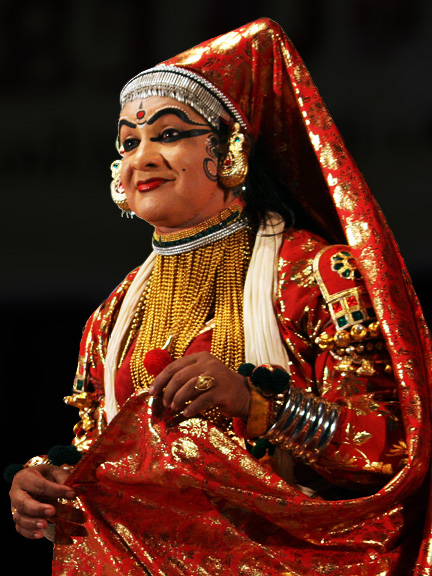 Margi Vijayakumar as Damayanthi in Nalacharitham Randam Divasam Kathakali.